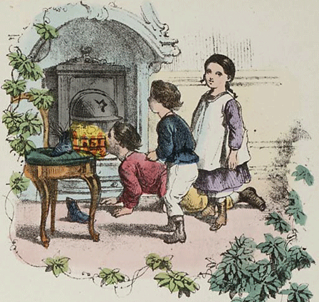 Children put their shoe before the open fire place or heater/stove (1873). Three children put their shoe for Saint Nicholas and sing a Saint Nicholas song (sinterklaaslied). Song under the illustration: 'Sinterklaas, goed heilig man! / Trek je beste tabbert an / Blief je wat te geven (...)'. Illustration from: "Hopsasa: knie- en bakerdeuntjes uit de oude doos", author unknown (Leiden, 1873). With the song 'Sinterklaas, goed heilig man' (p. 6). Source: DBNL . Ook beschikbaar op: geheugenvannederland.nl.